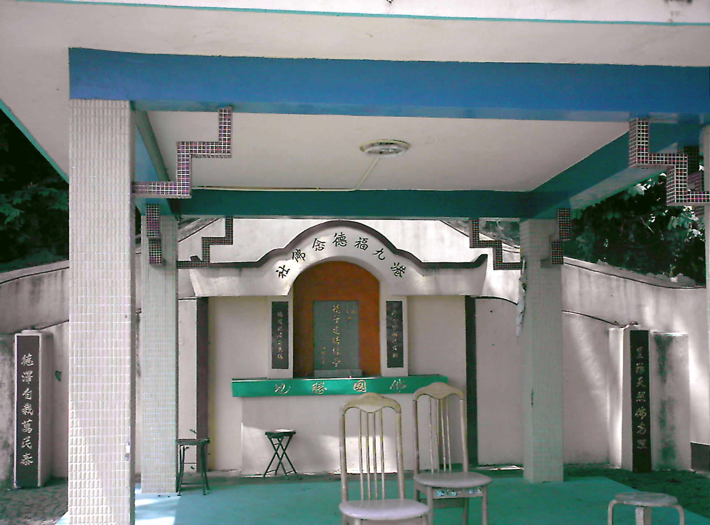 Friendship Pavilion, Hong Kong and Kowloon Fuk Tak Buddhist Association 中文（香港）: 港九福德念佛社，結緣亭